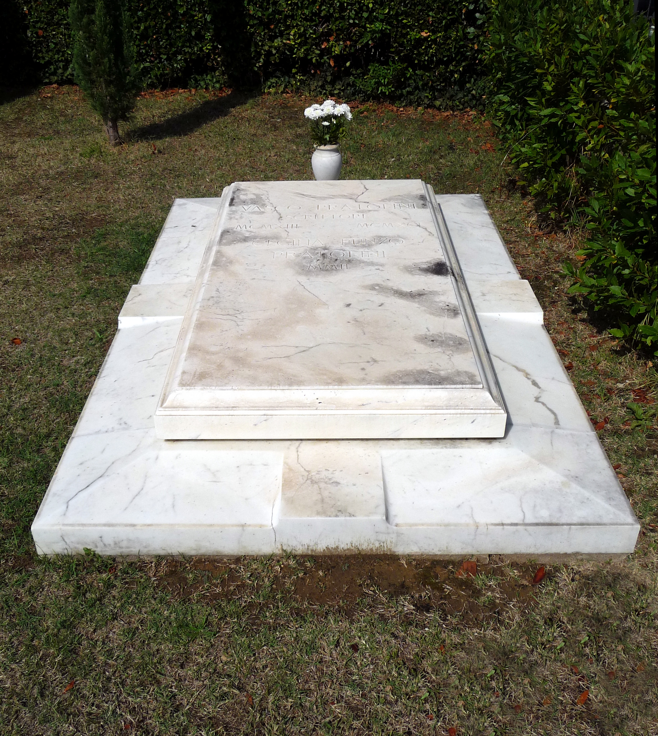 Tomb of writer Vasco Pratolini (1913-1991) on Cimitero delle Porte Sante near San Miniato al Monte, Florence, Italy